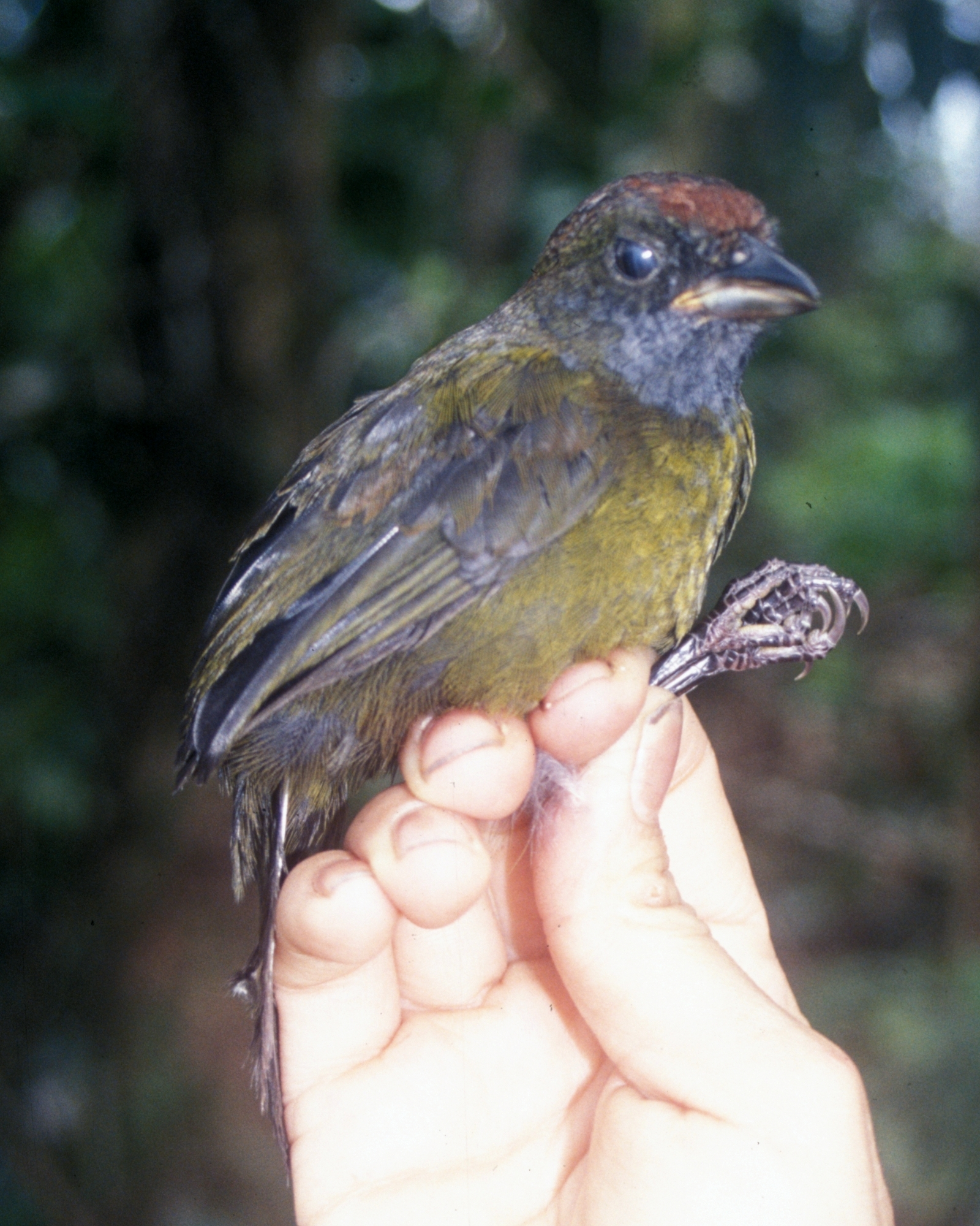 Olive Finch Arremon castaneiceps (syn. Lysurus castaneiceps). Immature from Cordillera del Cóndor, Ecuador.